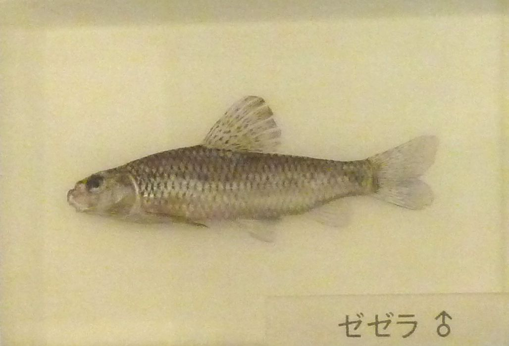 Specimen of Biwia zezera (male) at Osaka Museum of Natural History